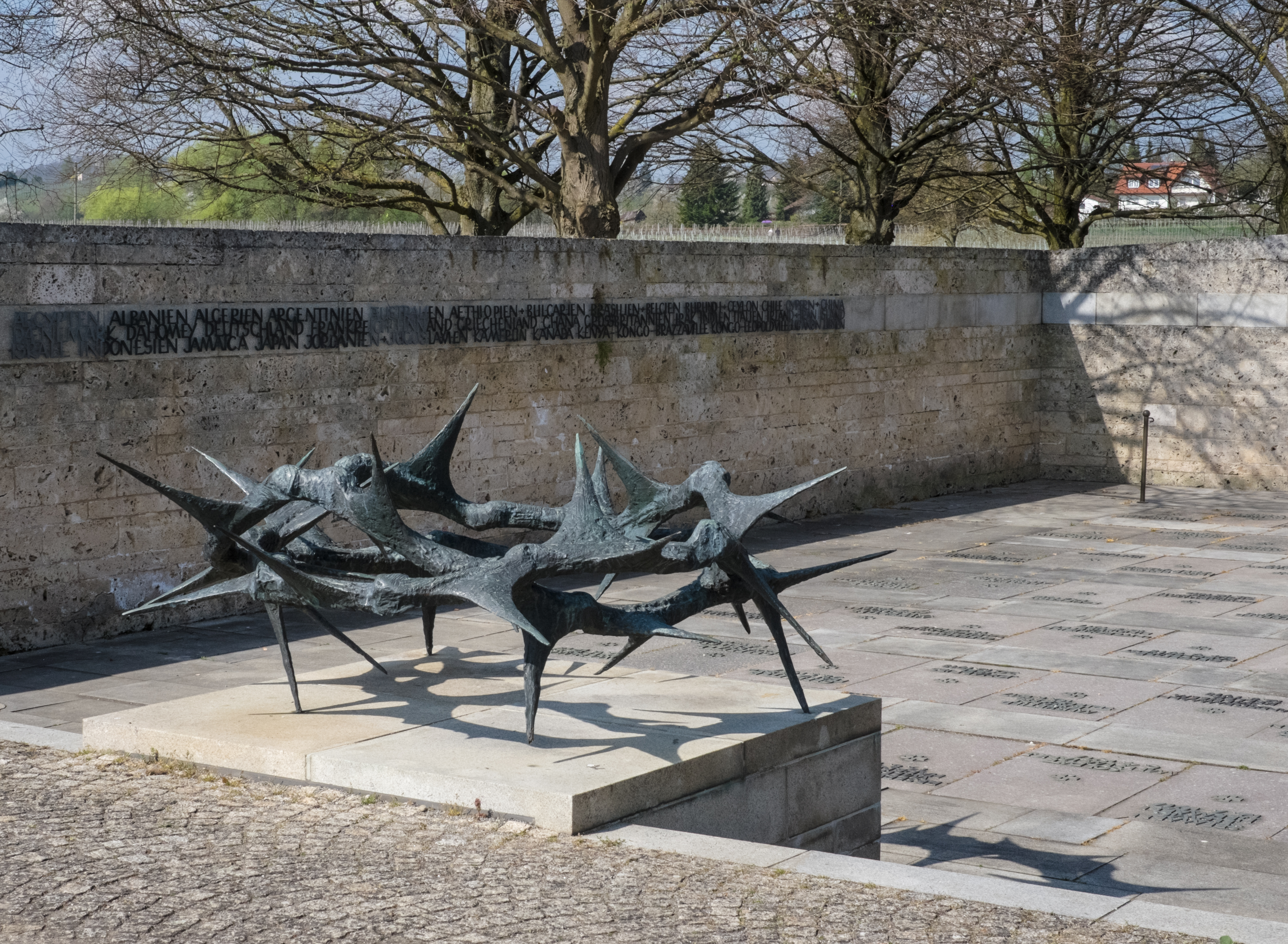 War memorial Kriegsgräberstätte Lerchenberg, Meersburg, Lake Constance, Bodenseekreis Baden-Württemberg, Germany